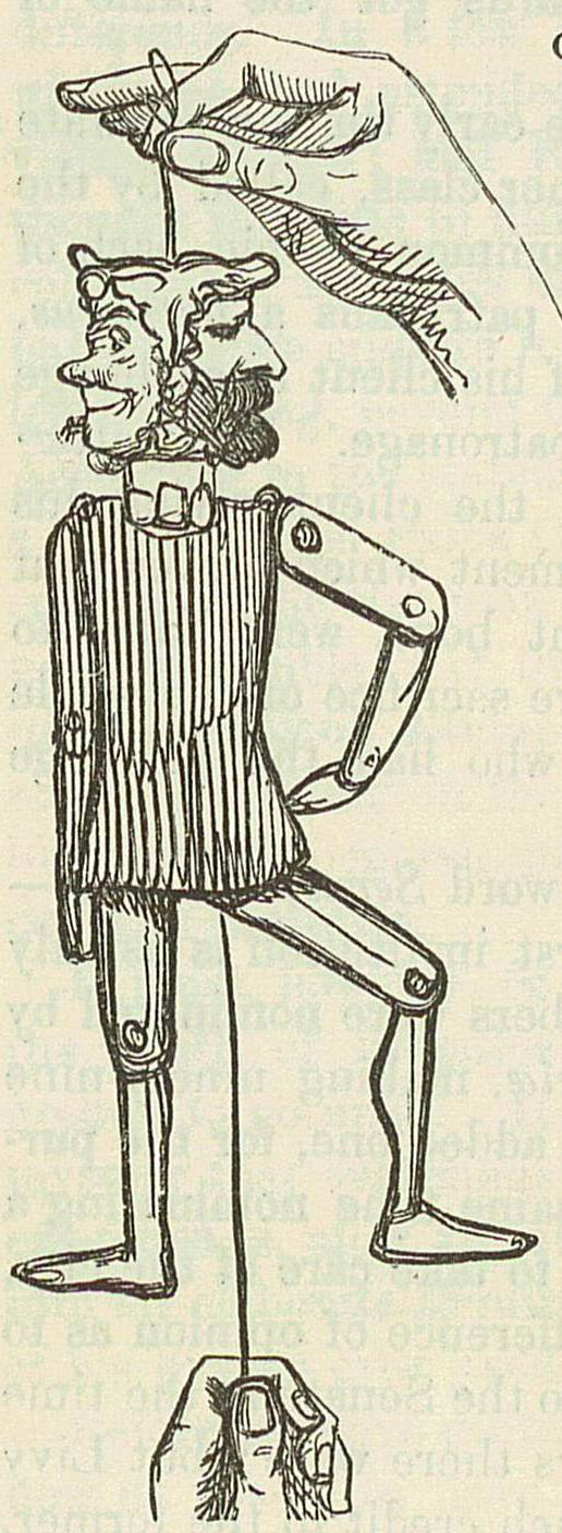 Image by John Leech, from: The Comic History of Rome by Gilbert Abbott A Beckett. Bradbury, Evans & Co, London, 1850s Initial R